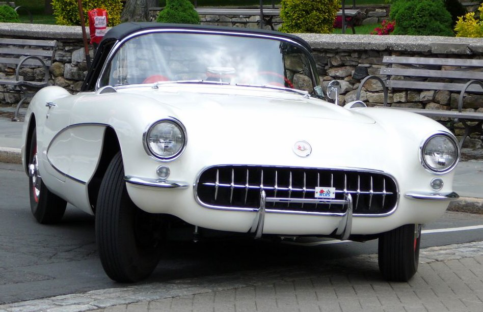 A Chevrolet Corvette C1 from 1956 at the Scarsdale Concours d'Elegance 2006.